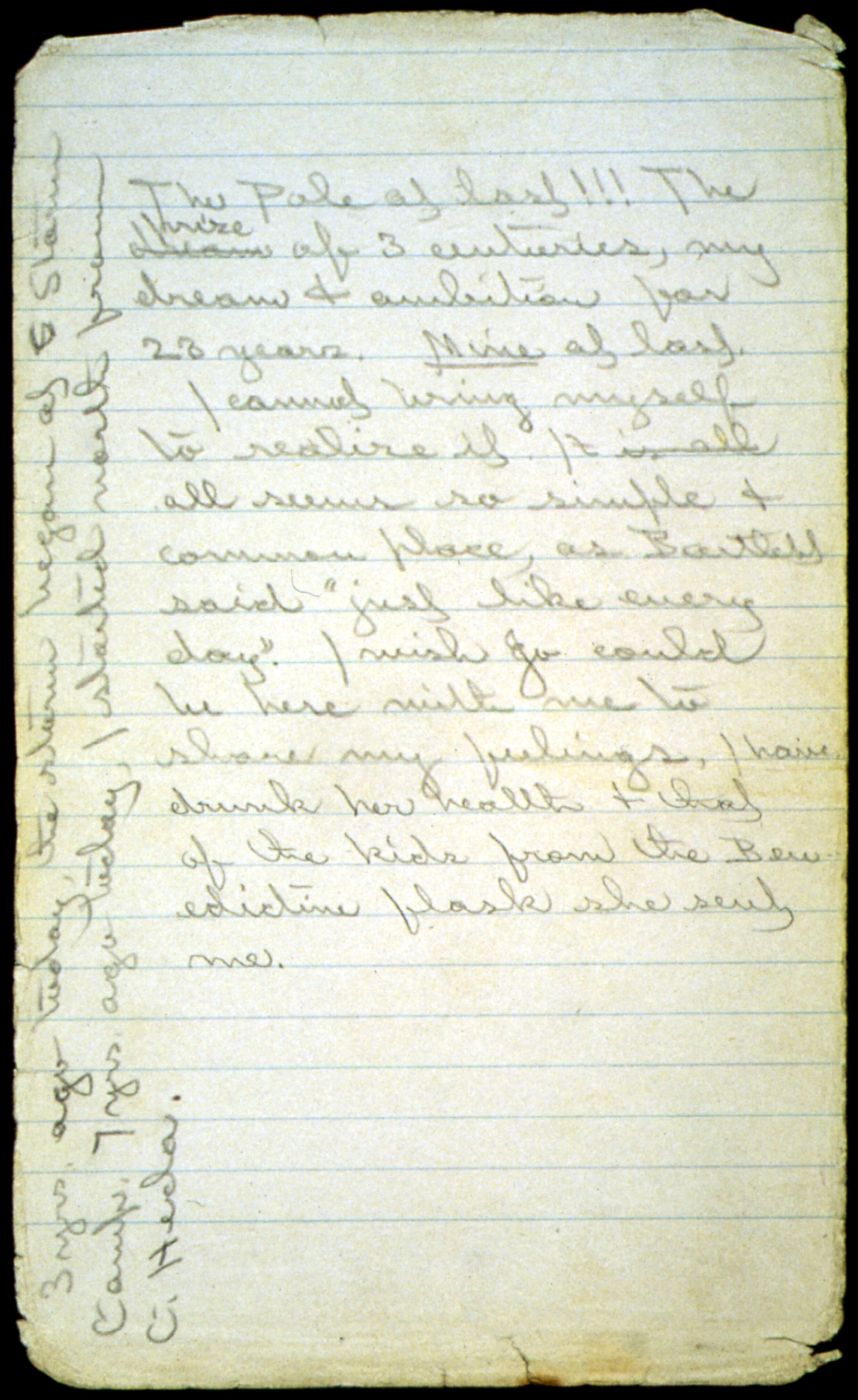 Scope and content: Explorer Robert E. Peary was obsessed with becoming the first person to reach the North Pole. Peary claimed that he and his party reached the North Pole on April 6, 1909. Doubt was cast on this claim almost immediately. Some experts maintain that Peary may have missed the Pole by as much as 50 miles, while others disagree. Individuals seeking to verify Peary's claim are drawn to his own records of the polar expeditions. During his earlier polar expeditions, Peary devised a relay system of crossing great distances over the ice: trailblazing parties would carry provisions, forge a trail, build igloos, then turn back at varying intervals, enabling the main party to travel faster and lighter. This diary entry reflects the obsession that drove Peary for more than 23 years. General notes: Exhibit History: "American Originals," December 1996 - December 1997, National Archives Rotunda, Washington, DC, Exhibit No. 624.0143.